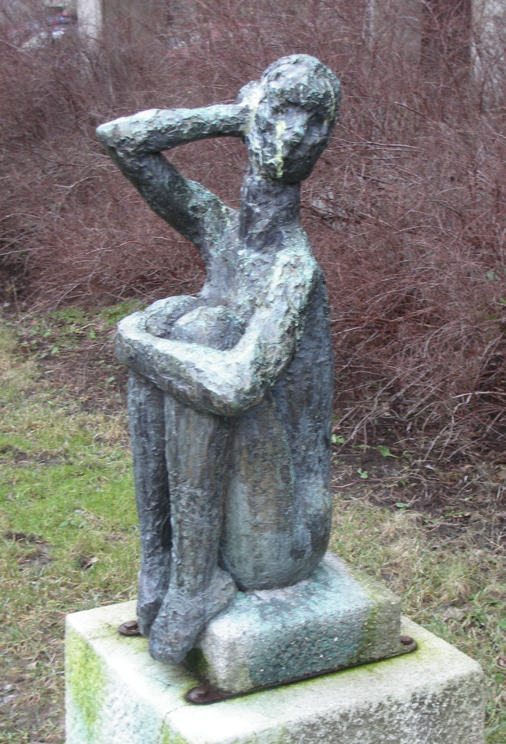 Liss Eriksson´s Innocence (Oskuld), Västertorp, Stockholm, Sweden